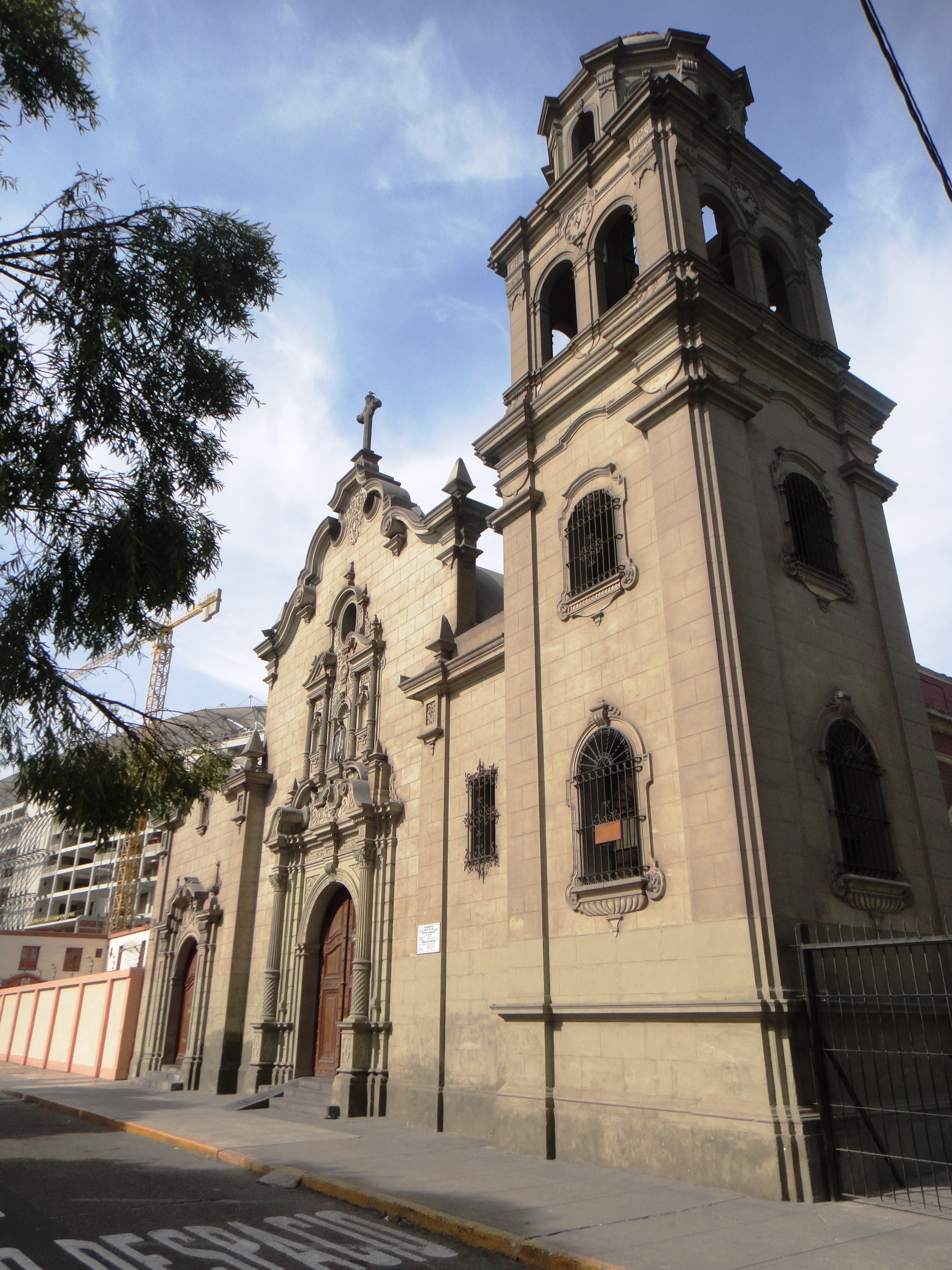 Saint Thérèse of the Child Jesus church in Lima, Peru.